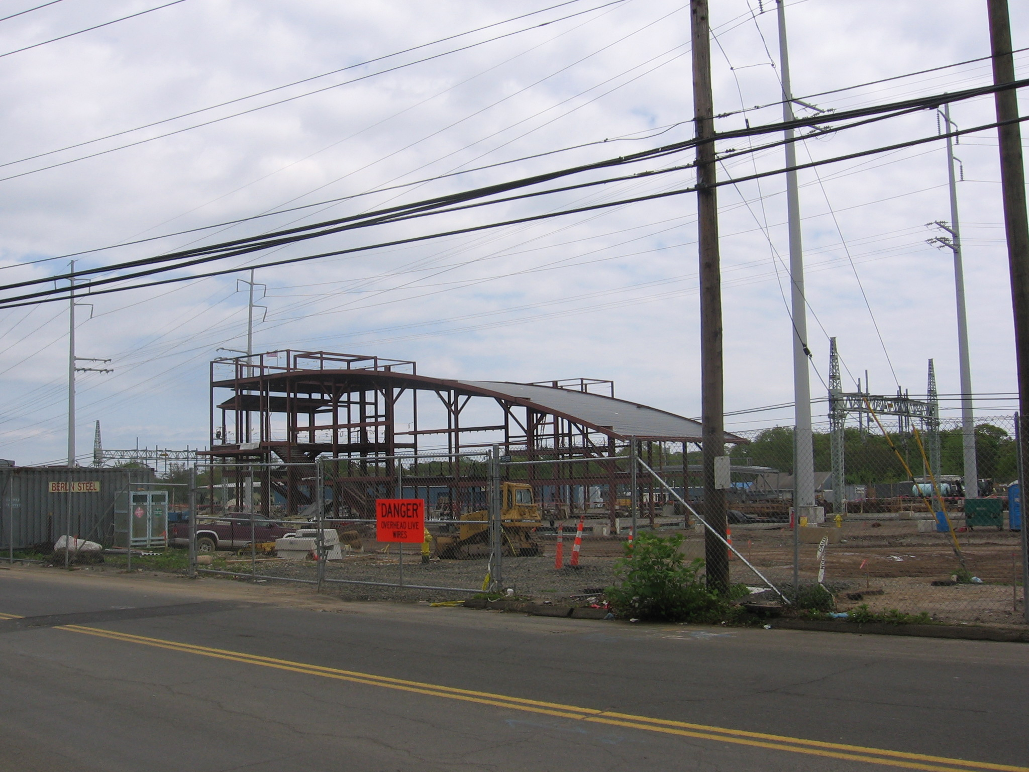 Looking southeast across Railroad Avenue at the construction site for the West Haven (Metro-North station).